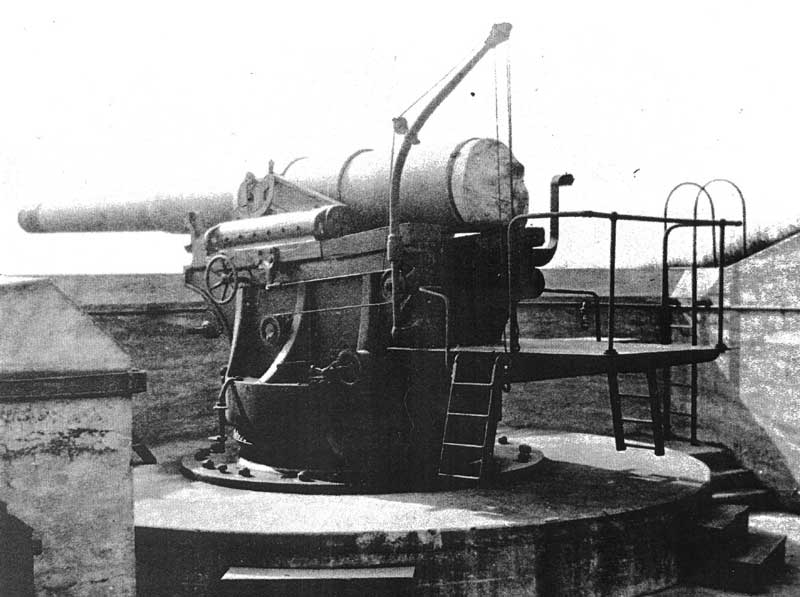 US Army 8-inch gun M1888 on barbette carriage M1892.